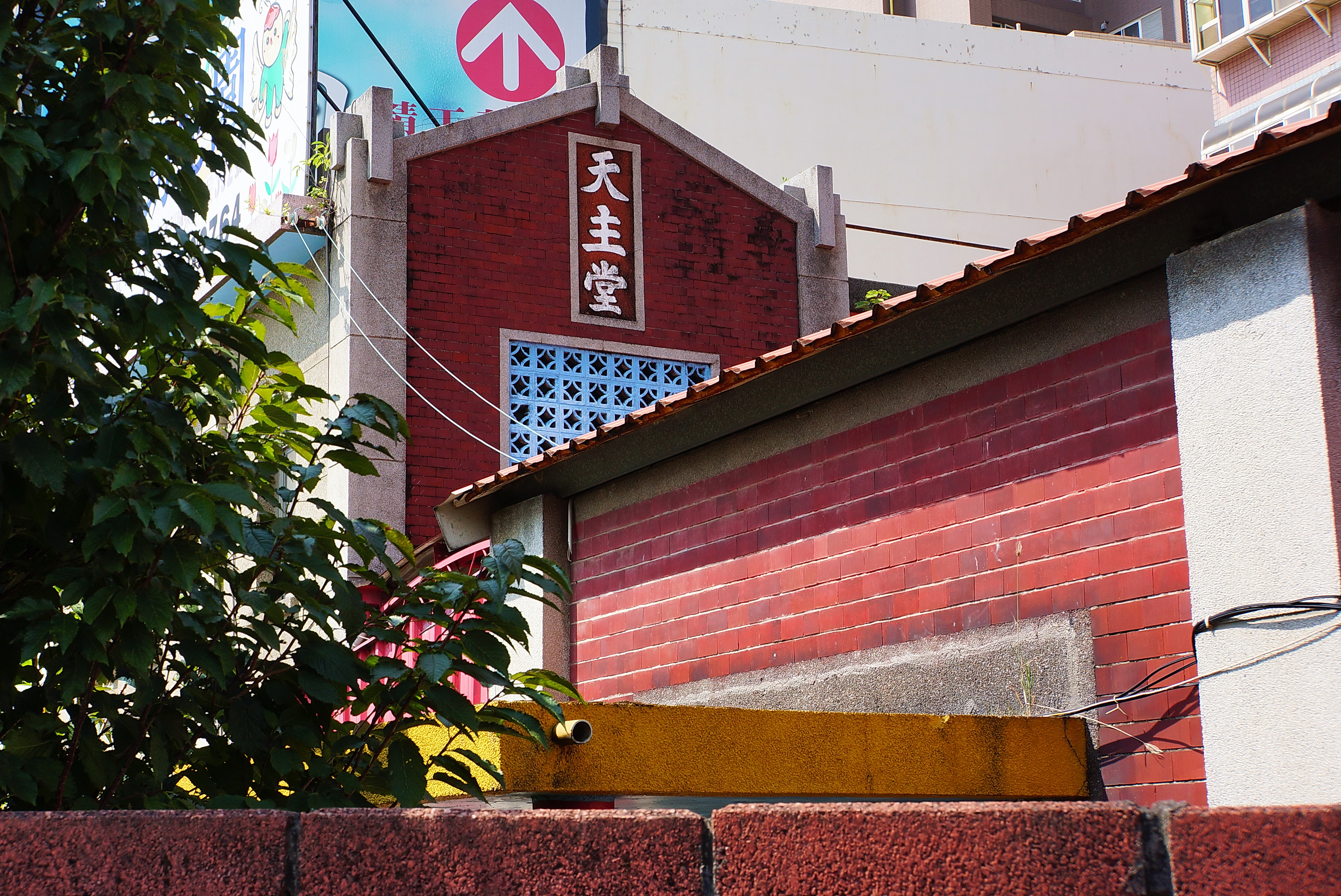 六家天主堂 Liujia Catholic Church